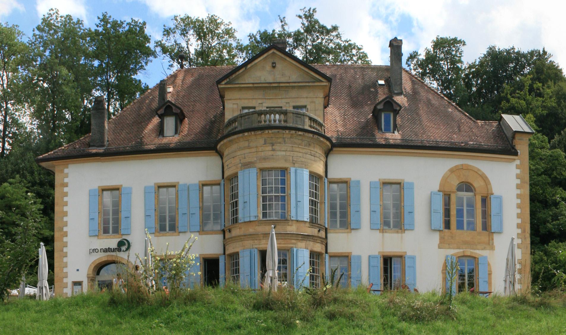 Château de Champittet